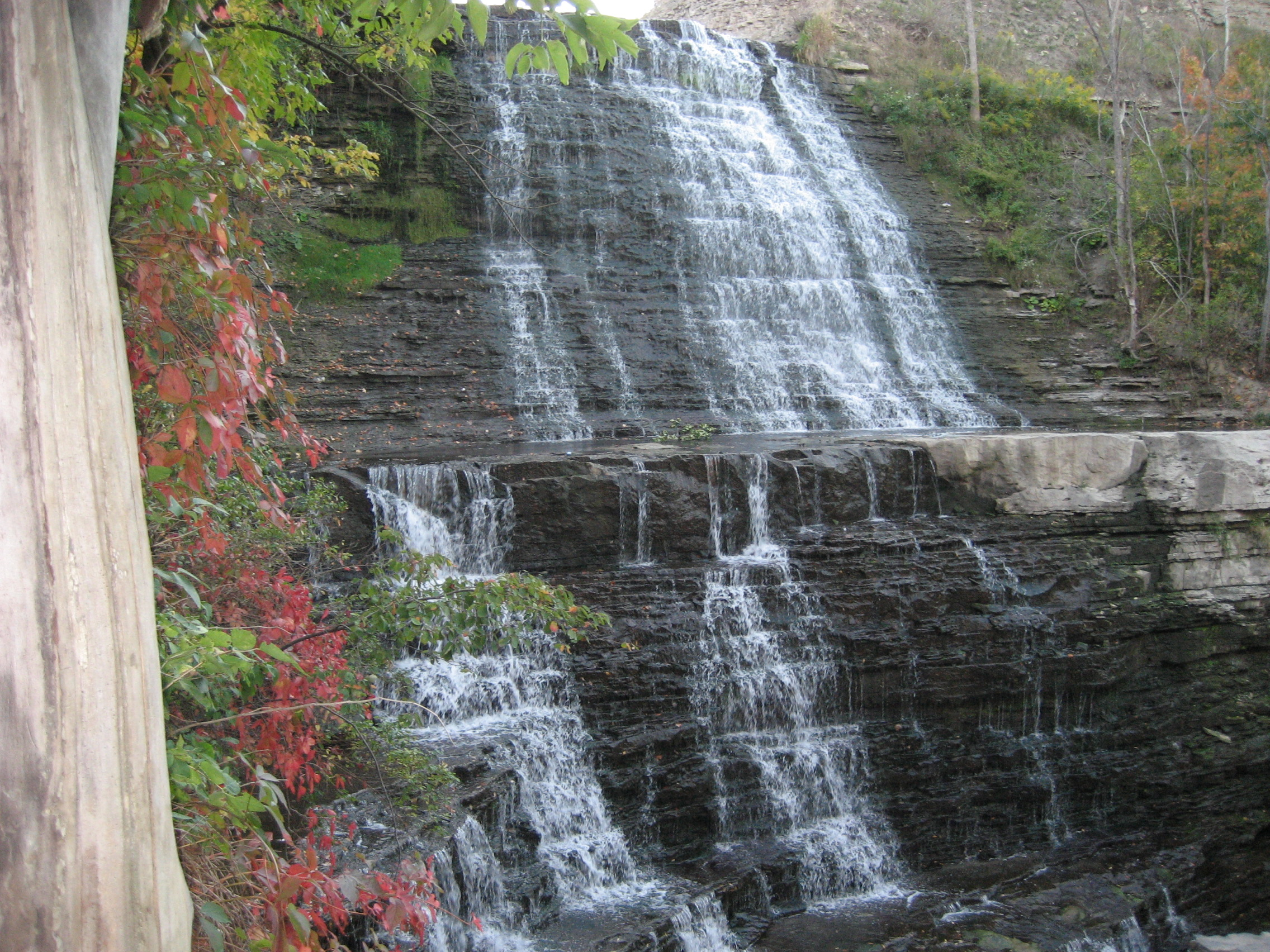 Albion Falls, access from near Fennell Avenue at Upper King's Forest Park, Hamilton